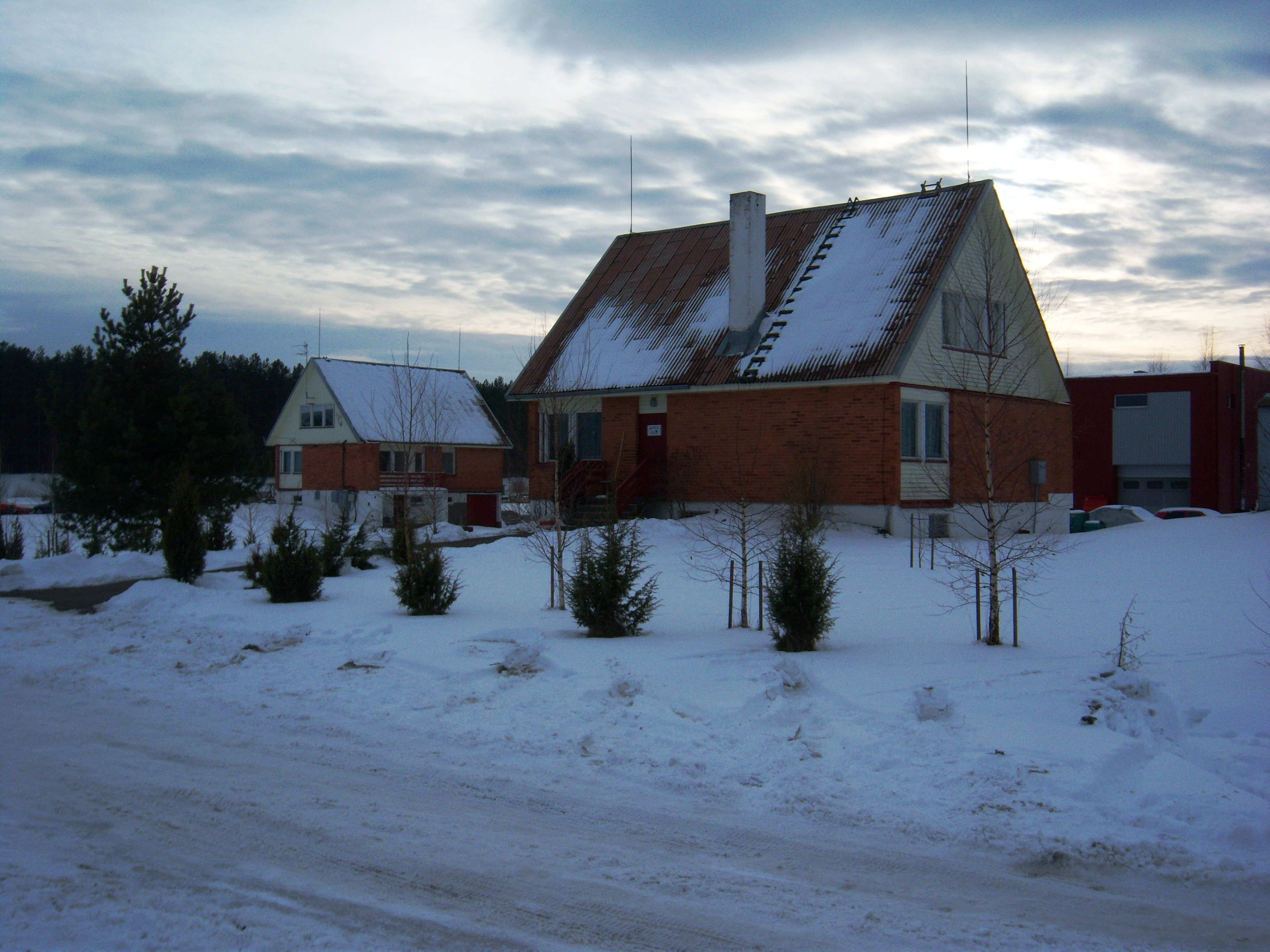 Administration houses (Alytus-type prefab homes) of racing track "Nemuno žiedas" near Kačerginė, Kaunas District. Lithuania